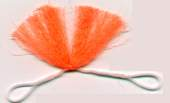 strikeindicator fly fishing